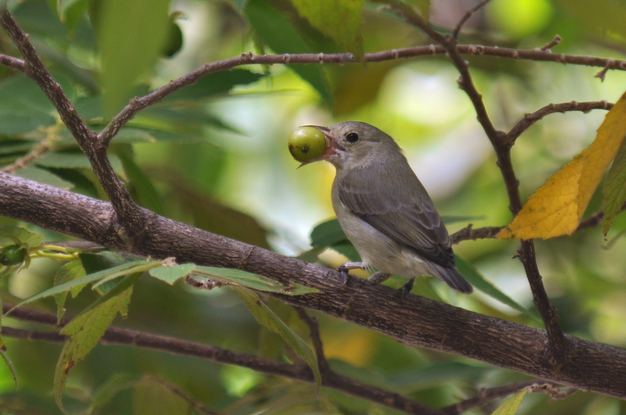 Pale-billed Flowerpecker in Karnataka, India